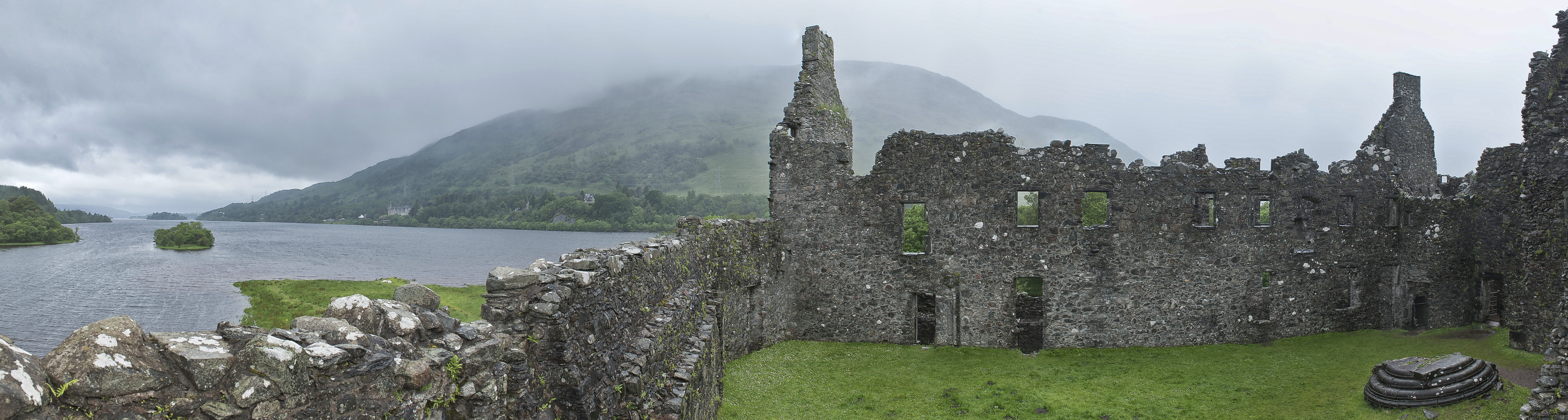 Kilchurn Castle, Scotland